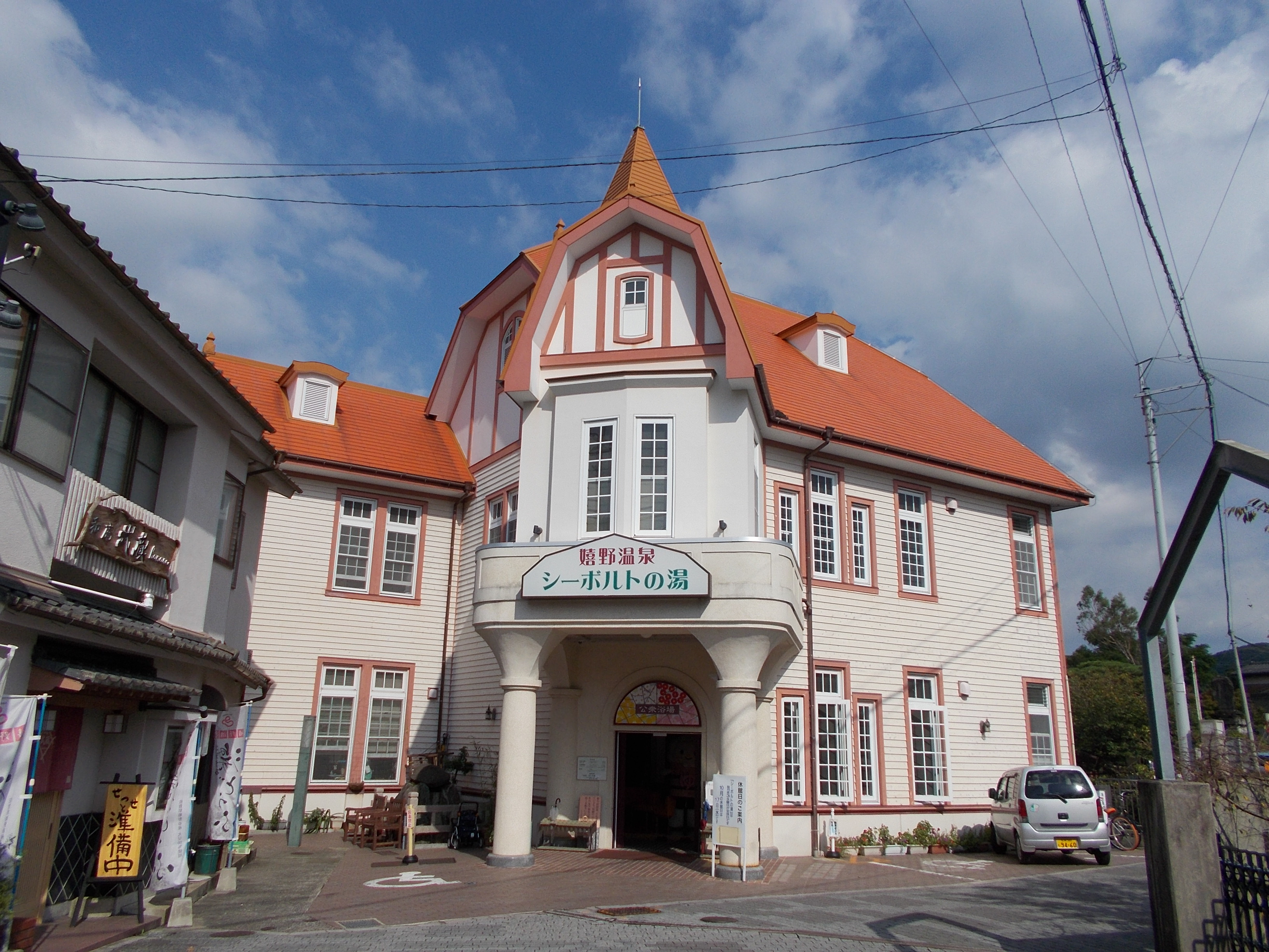 Ureshino Onsen Siebold-no-yu, a public bath in Ureshino, Saga, Japan